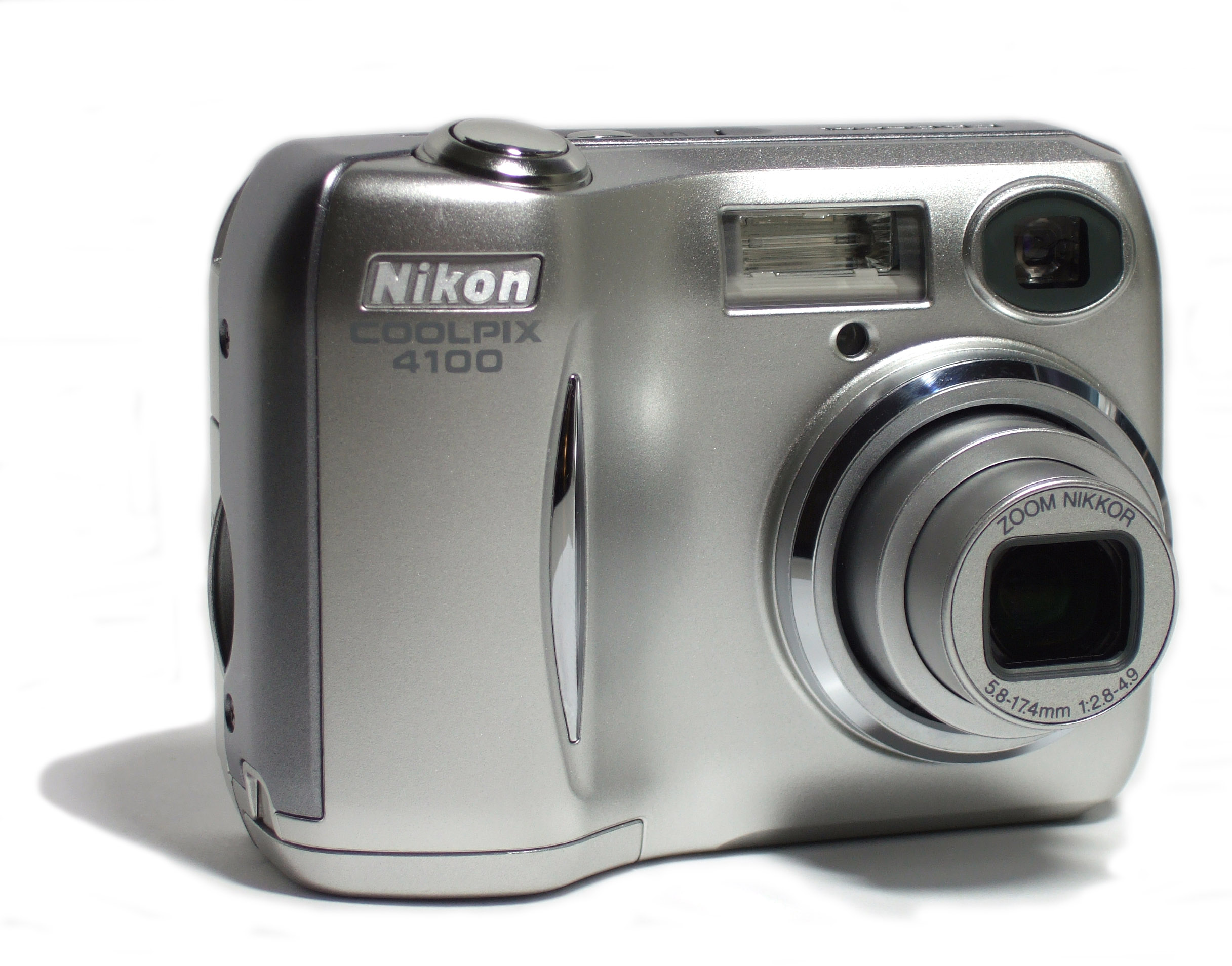 Nikon CoolPix 4100 Digital camera (2004)